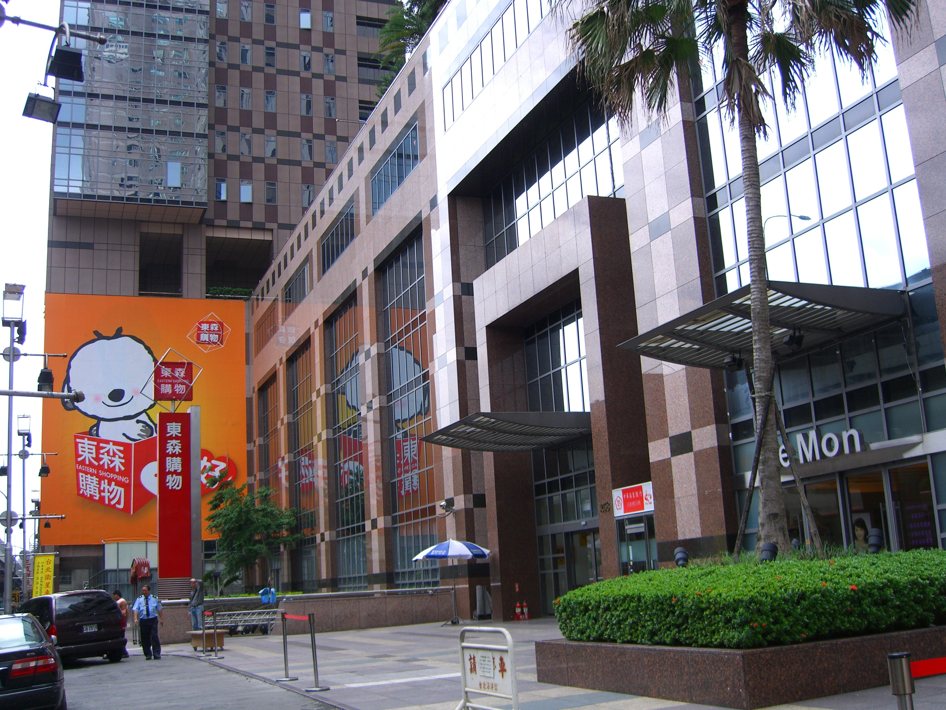 The headquarters of Eastern Home Shopping & Leisure in Zhonghe District, New Taipei City.中文（台灣）: 東森得易購總部，地址：新北市中和區景平路258號1樓（天空之城綜合大樓）。